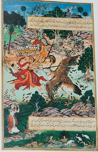 Ramayana episode